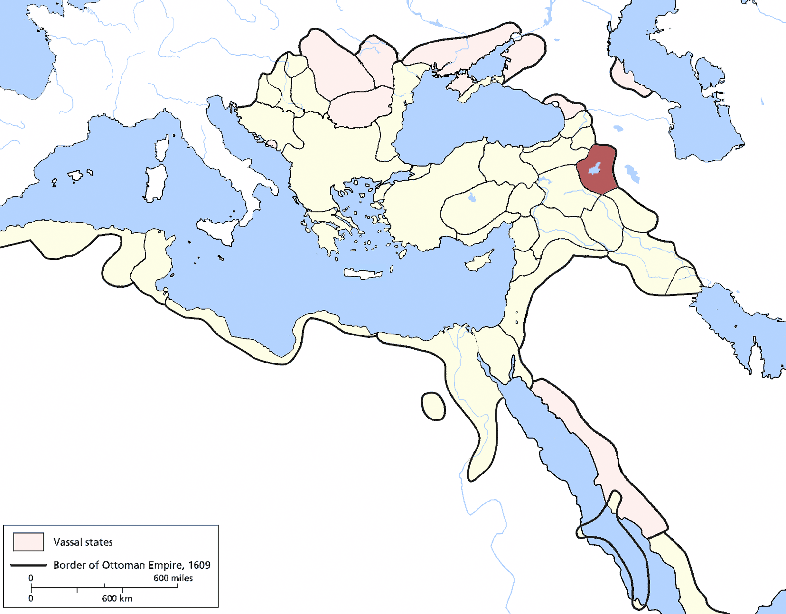 Van Eyalet, Ottoman Empire (1609). Source: Encyclopedia of the Ottoman Empire at Google Books By Gábor Ágoston, Bruce Alan Masters